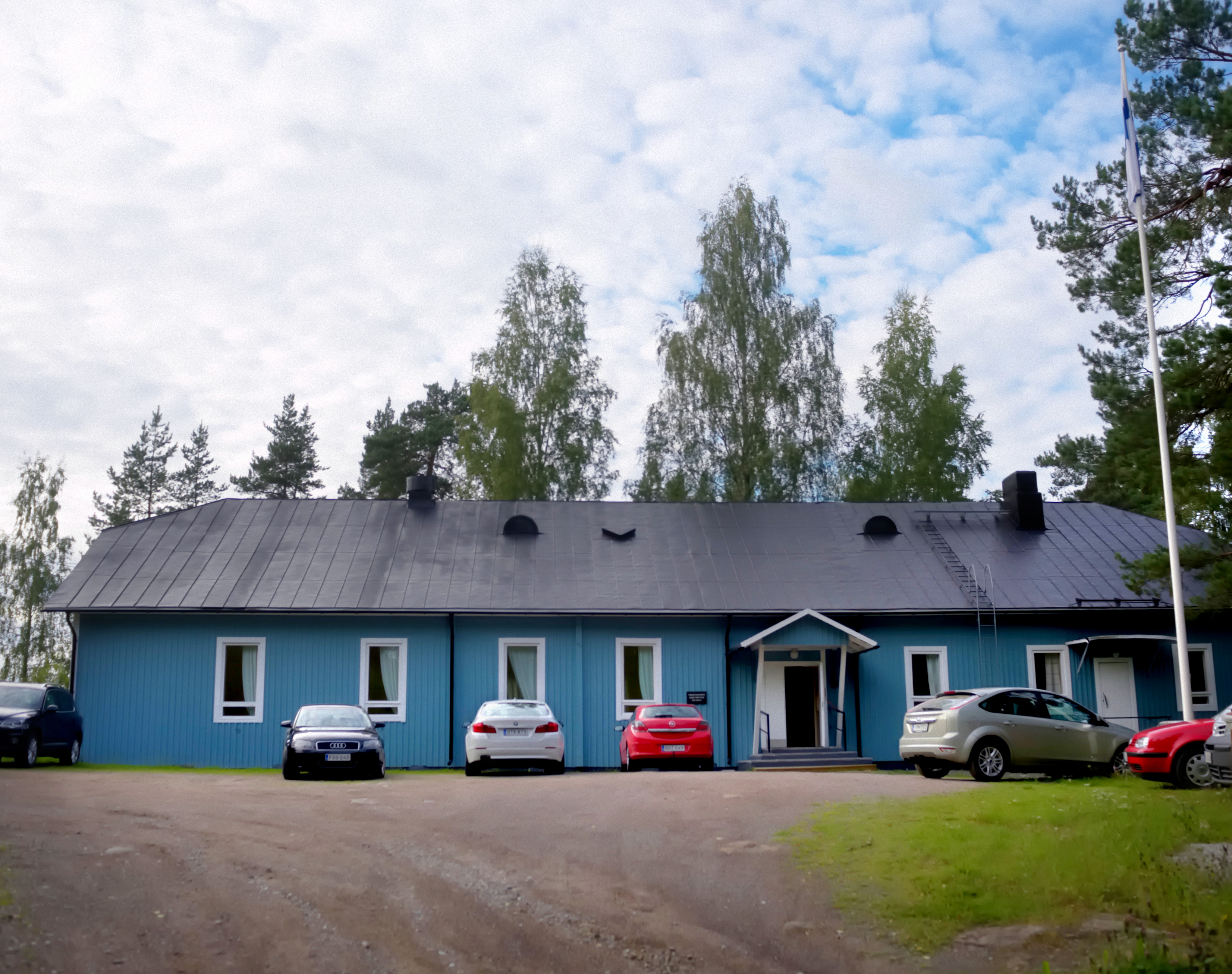 Ylämaa Youth Center 2015